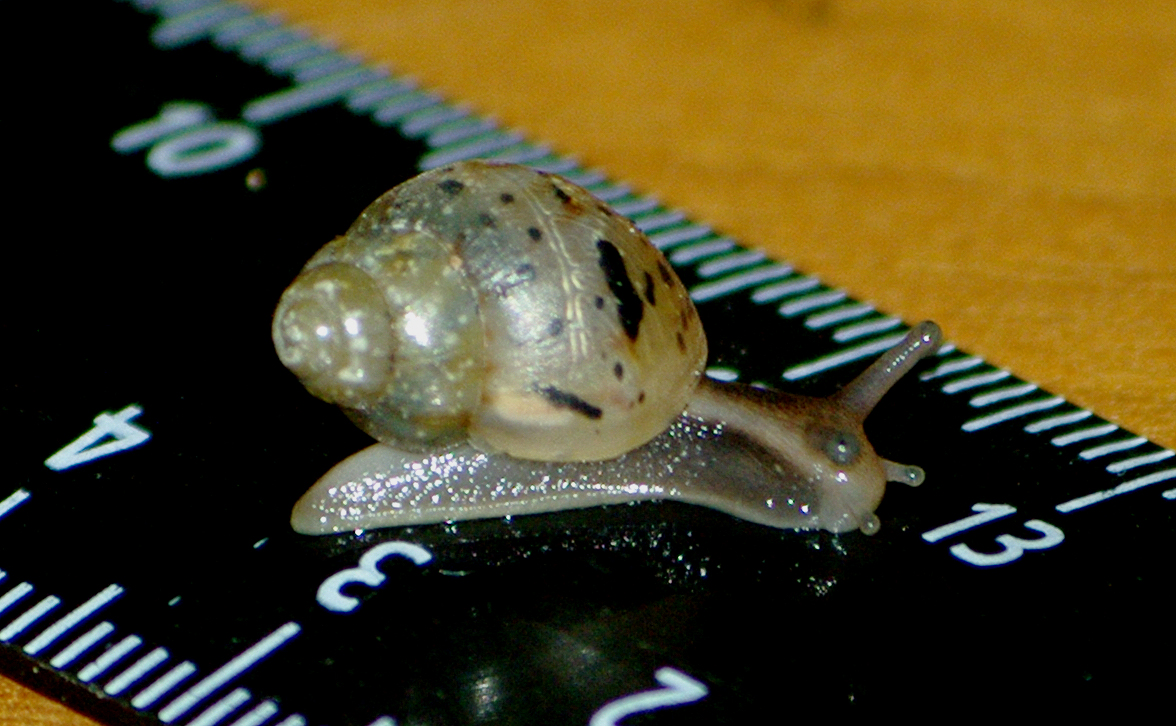 Little achatina (about 1 month)